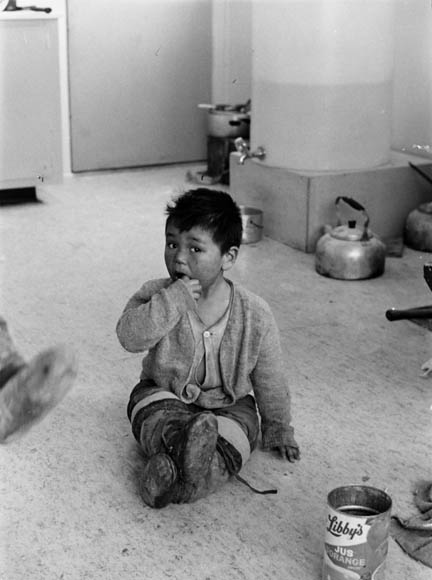 In Peter Pitseolak's home, April 1968.